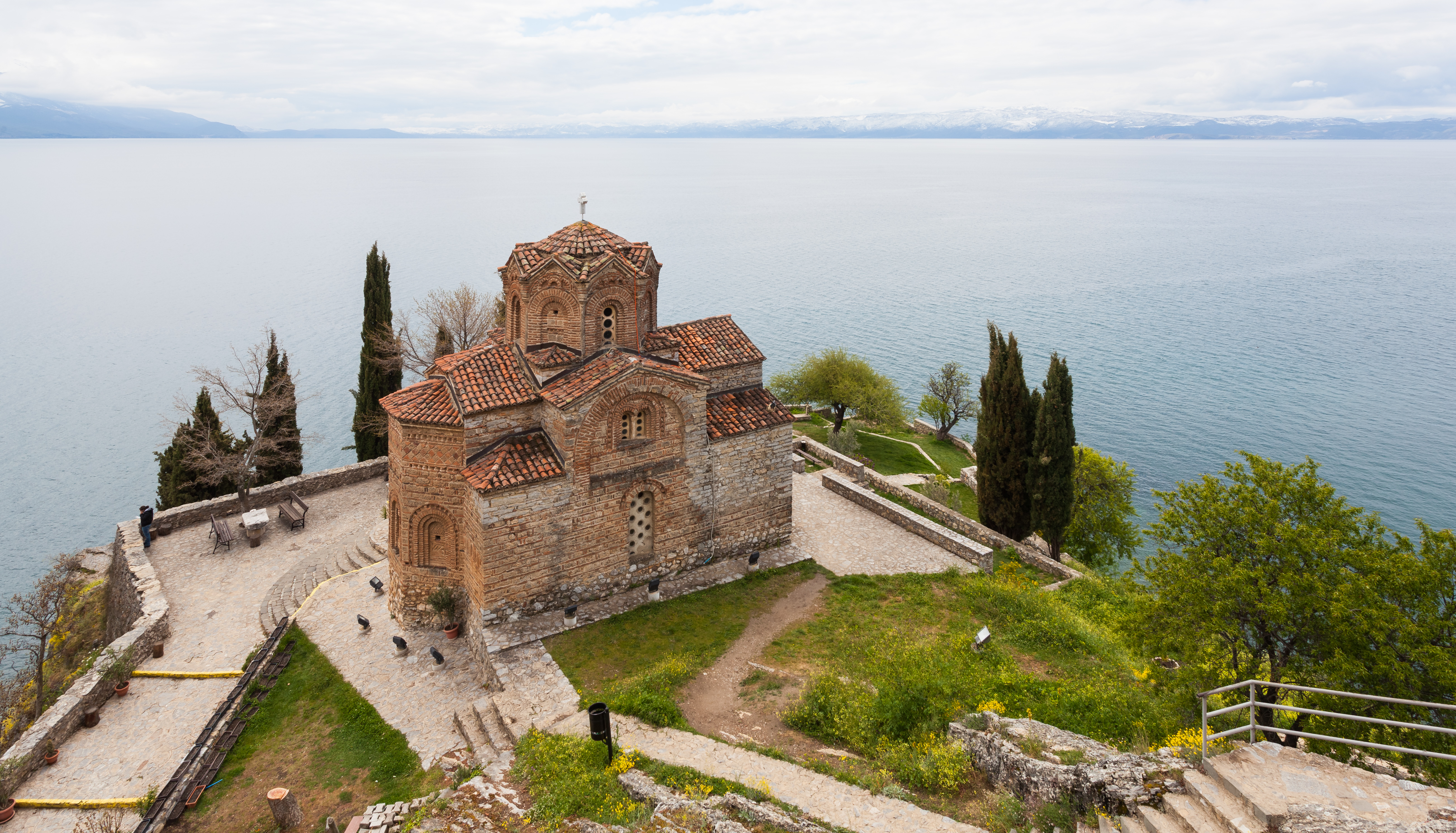 St John Kaneo church, Ohrid, Macedonia